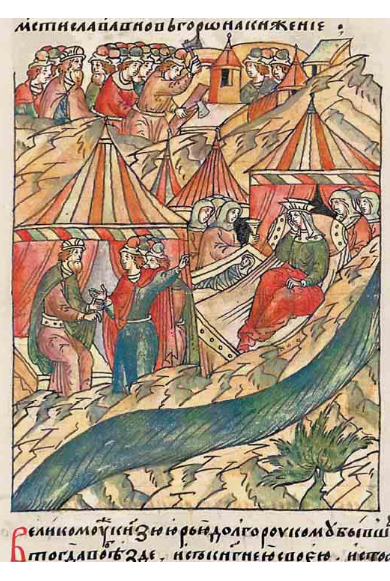 Birth of Vsevolod the Big Nest